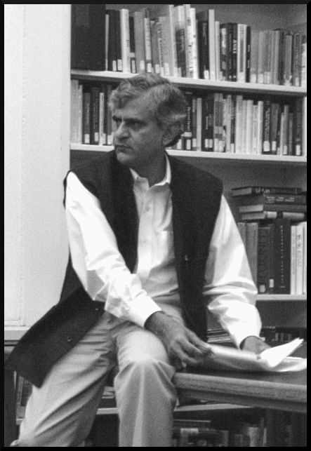 I took this photo at a lecture Palagummi Sainath gave at the North Gate Library at the University of California, Berkeley 11/13/2008.